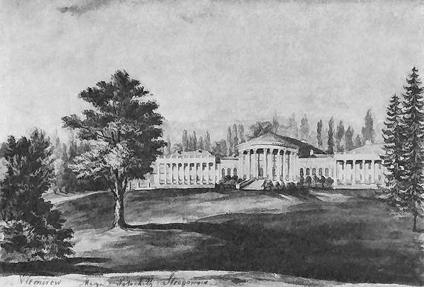 Napoleon Orda. Nemyriv